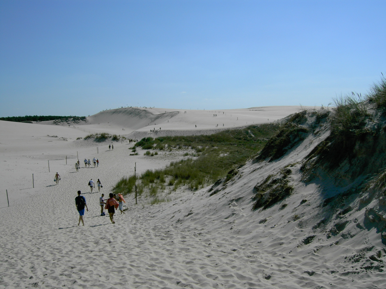 Slowinski National Park near Leba, Poland